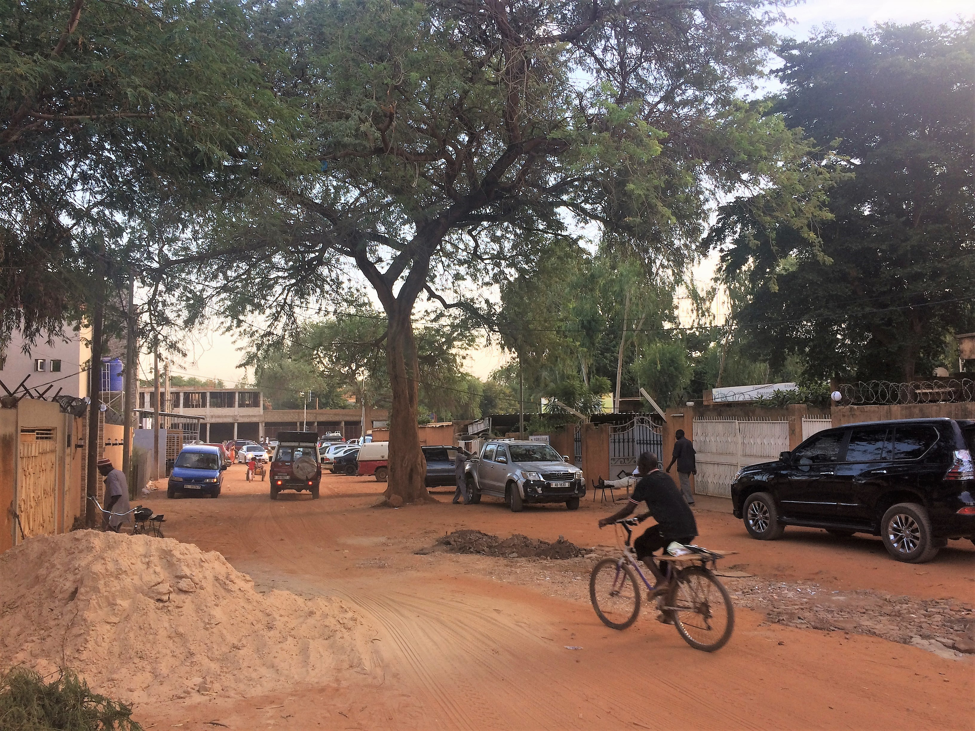 Road No. YN-123 (Rue YN-123) in the Yantala Nouveau neighborhood of Niamey, Niger.